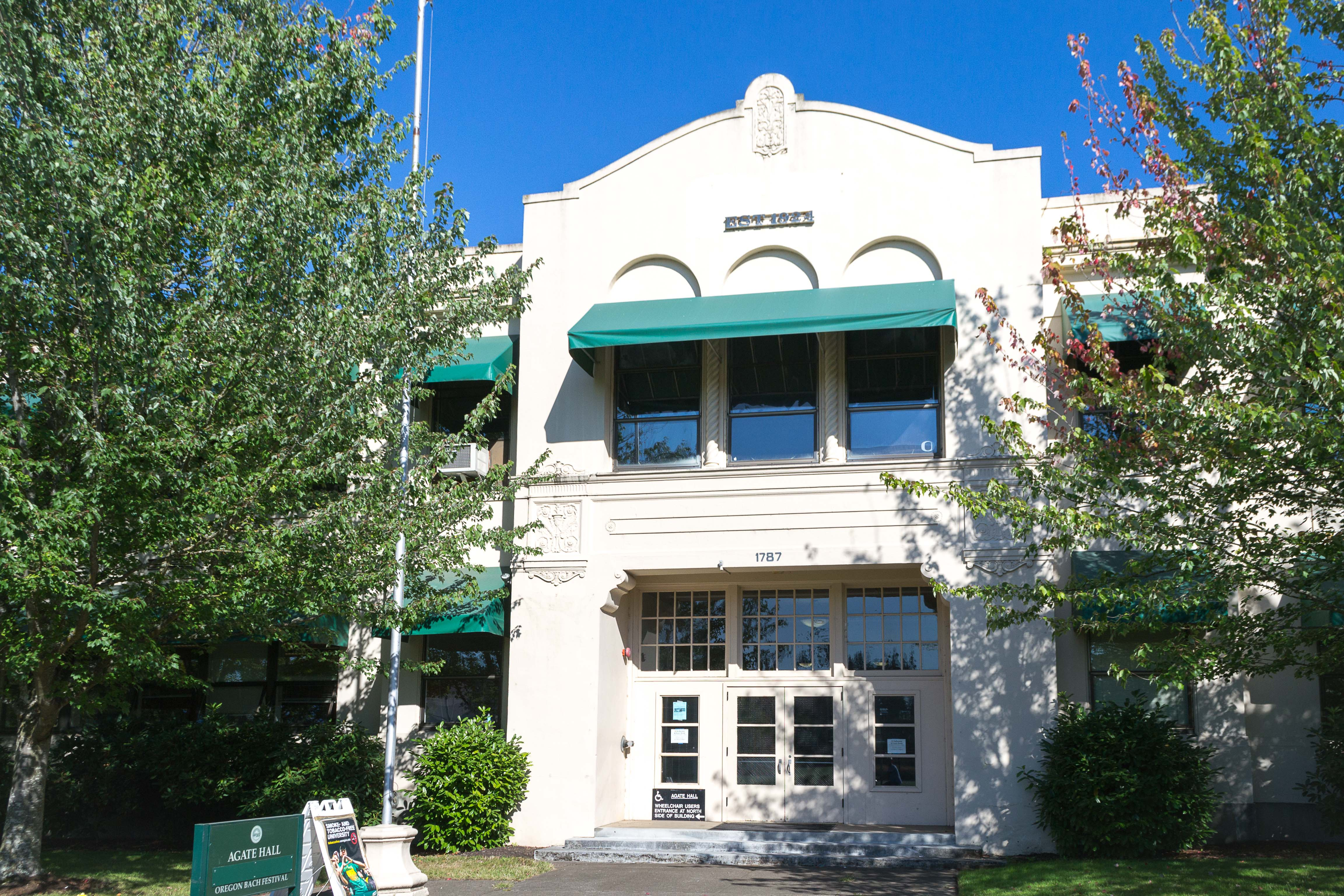 Designed by Frederick Manson White as Roosevelt School, the building was renamed Condon School and then Agate Hall at the University of Oregon